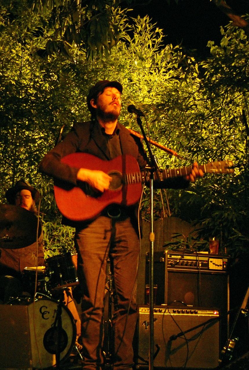 Andy Cabic, performing with his band, Vetiver, at the Crepe Place in Santa Cruz, California.